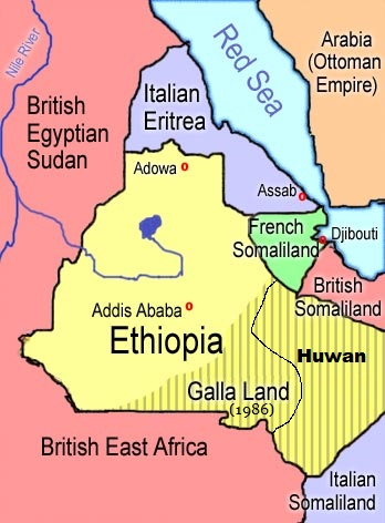 A map of Ethiopia in 1908, showing the location of the battle of Adowa, the first Italian settlement at Assab, Menelik's new capital at Addis Abeba. The border with Galla territory is based on an 1885 map and an 1890 map but is arbitrary. Abyssinia, French Somaliland, Eritrea.